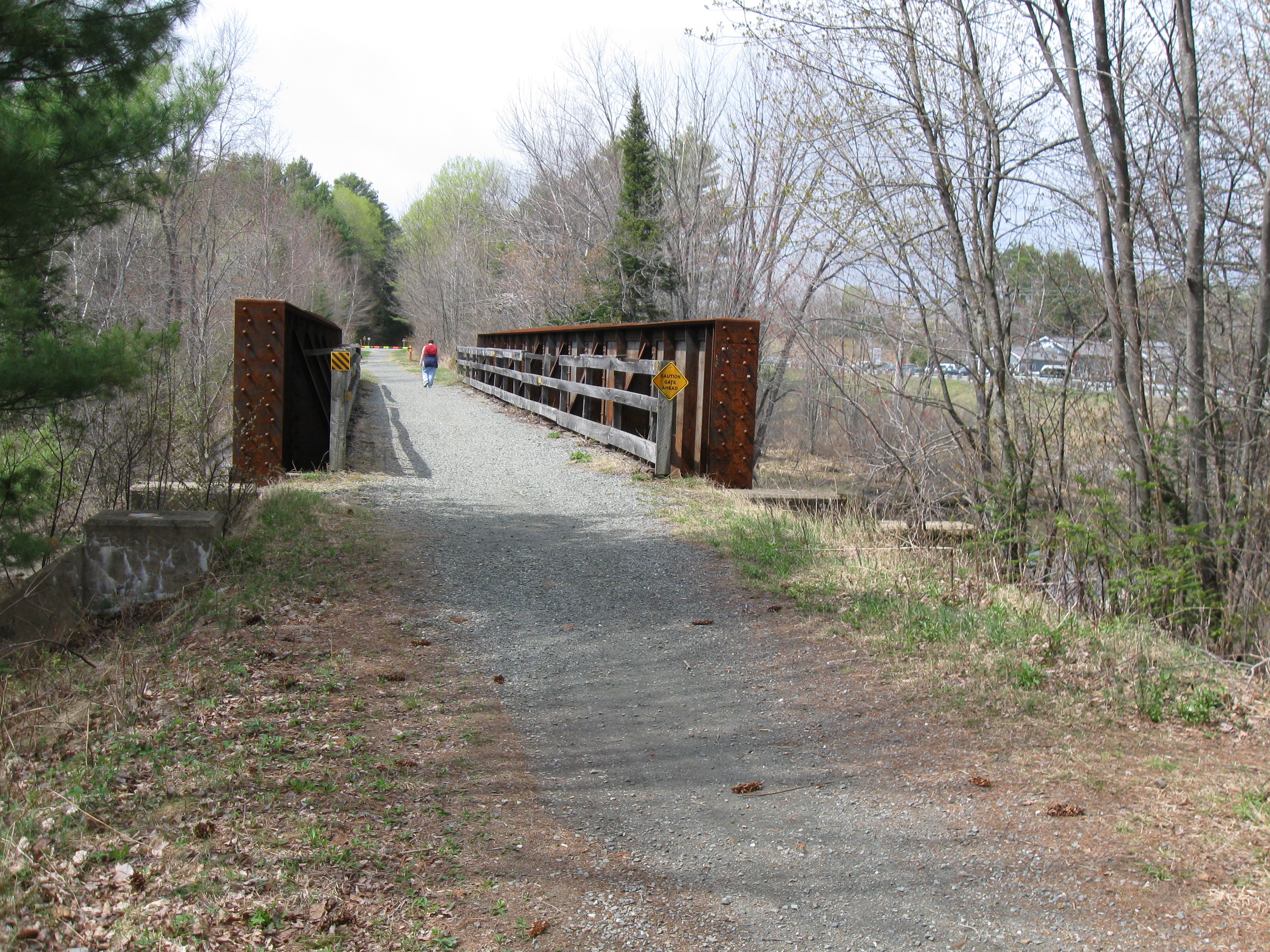 The Northern Rail Trail (New Hampshire) between Enfield and West Canaan